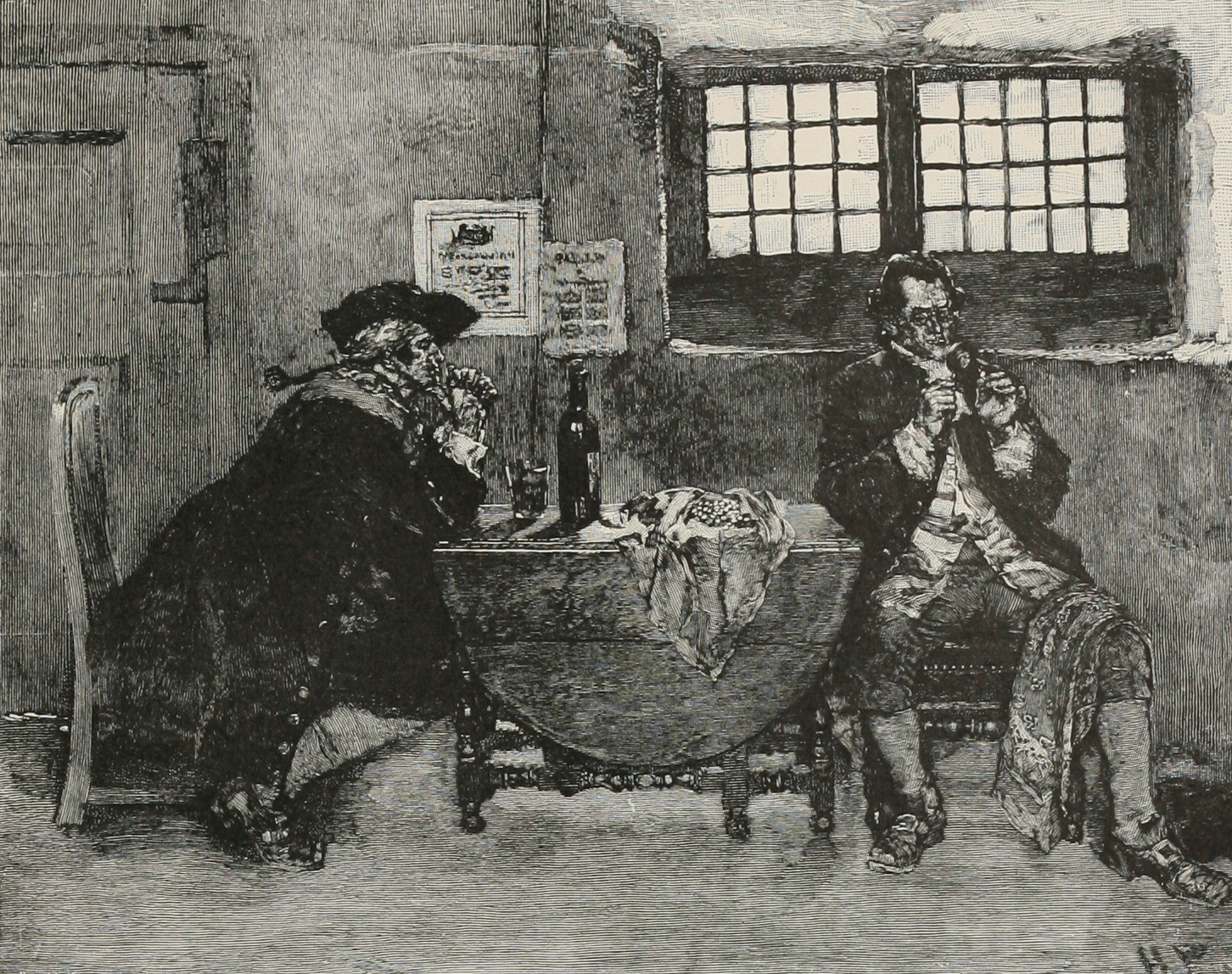 Avary sells his Jewels: this was originally published in Pyle, Howard (June–November 1887). "Buccaneers and Marooners of the Spanish Main — Second Paper". Harper's Magazine 75 (448): p. 502. New York, United States: Harper and Brothers.